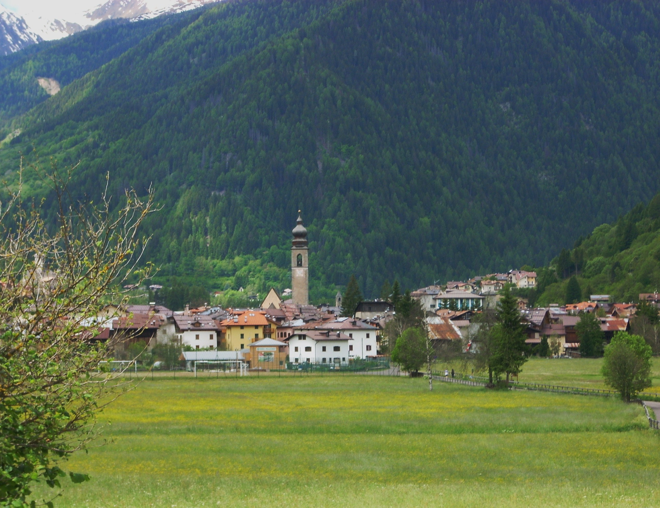 Pellizzano, in the Sun Valley (Province of Trento, Italy)